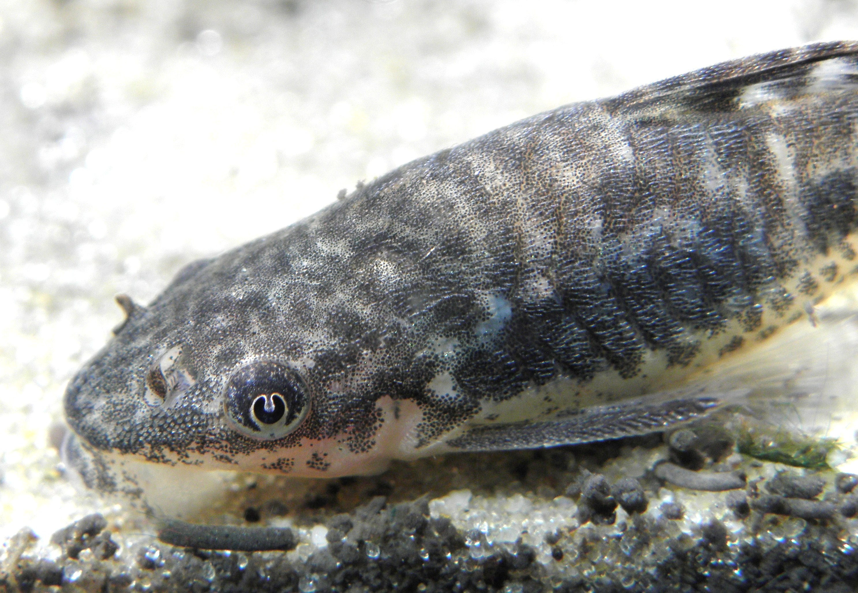 "Dwarf suckers" or "otos" (Otocinclus arnoldi).